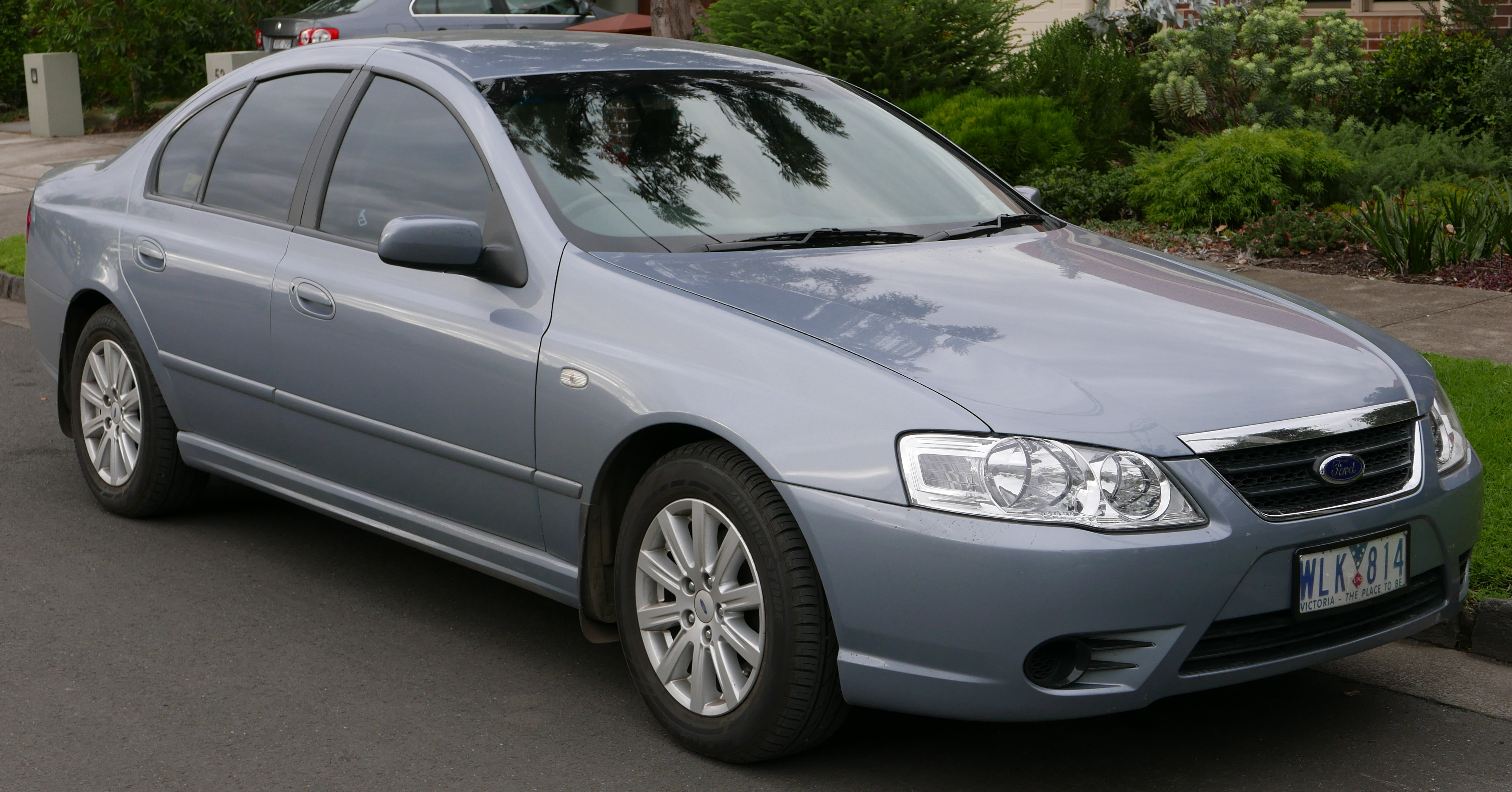 2007 Ford Fairmont (BF II) sedan. Photographed in Alphington, Victoria, Australia. Vehicle registration enquiry resultsJurisdictionVictoriaRegistrationWLK814Chassis code6FPAAAJGSW7T22010Engine codeJGSW7T22010Compliance date2007-08Year of manufacture2007